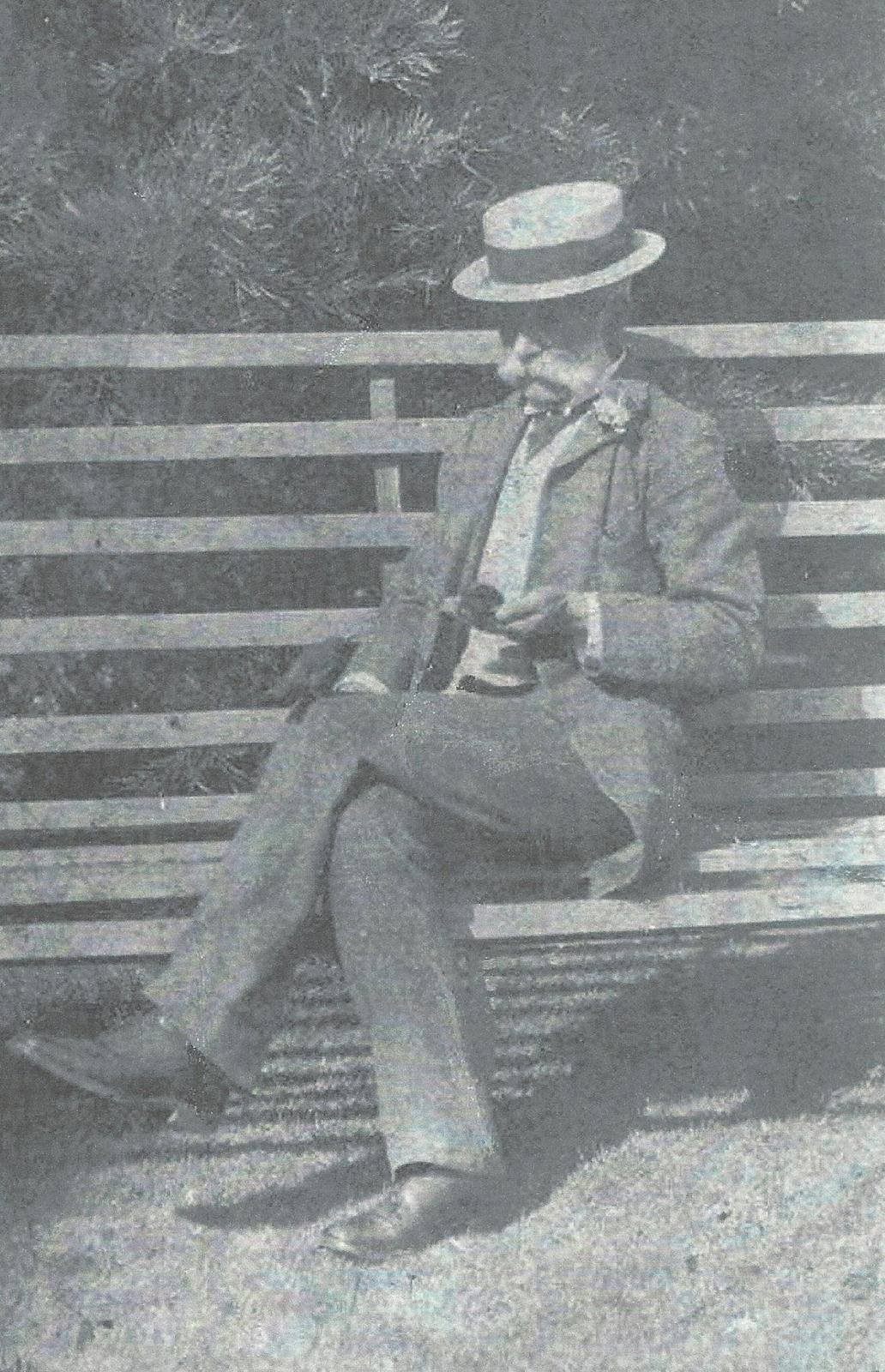 Frederic Bonney (1842 – 1921) was a British land owner and photographer. He took photographs at Momba Station in New South Wales in the 1870s. Selfie in 1915 in the UK